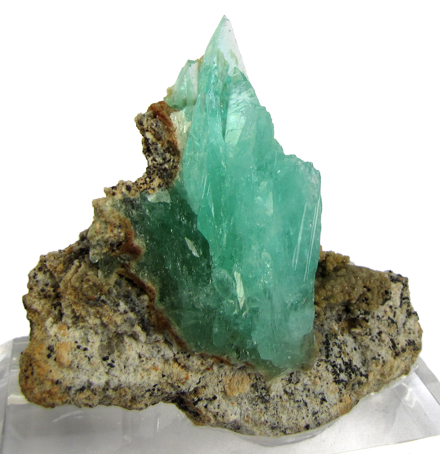 Phosphophyllite Locality: Unificada Mine, Cerro de Potosí (Cerro Rico), Potosí City, Potosí Department, Bolivia (Locality at ) Size: small cabinet, 6.5 x 6.5 x 2.6 cm Phosphophyllite Phosphophyllite is one of the Holy Grails of mineral collecting. To get a good one, to even see a good one, is almost impossible. To get a LARGE and good one, that has some show value beyond being a killer little crystal , this is uncommon in the extreme! This specimen has a 2-INCH crystal cluster shooting starkly upright from a well-trimmed matrix. The color is phenomenal - the classic, and totally unique blue-green color with high saturation. The crystals are stacked like plates against each other, culminating in a very sharp and totally gemmy-clear termination atop. The crystal cluster seems to have grown in a thin seam, straight up or down as the case may be, and matrix which attached along the front has been carefully removed to leave a series of micro-faces where crystal growth was constrained, but this is not damage. A small bit of contact damage does exist, on the very left side of the cluster. The right side is terminated with outward-pointing faces showing nice patterns of crystallization on their surfaces, and just a slight bit of edge wear atop those side faces. The gemmy, stepped terminations are complete, and stand above the bulk of the cluster to really show off nicely. I have had in my life only 3 major phosphophyllites, and this is perhaps the best "bang for the buck" of them, in terms of owning something large and showy that does not completely break all price horizons (as other phosphophylites might), because I was lucky enough to buy this as a "fixer-upper" in need of a trim and clean. I cannot emphasize enough the uniqueness of the color, or the rarity of getting such a large and showy specimen of this incredibly rare, gem species. Most of them were found in the 1930s and 1940s, with jus ta small trickle turning up despite intensive efforts, in all the years since.